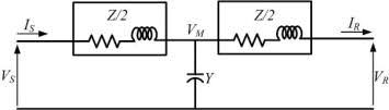 Nomital T model of Medium Transmission line